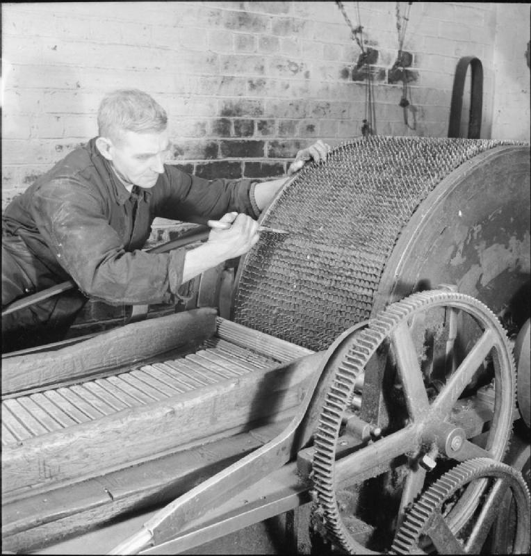 Old Rags Into New Cloth- Salvage in Britain, April 1942 An engineer at this textile mill sets the teeth of the rag grinding machine. Strips of salvaged clothing and other woollen materials are shredded in this machine to form 'shoddy' which will then be added to new wool to produce new cloth.